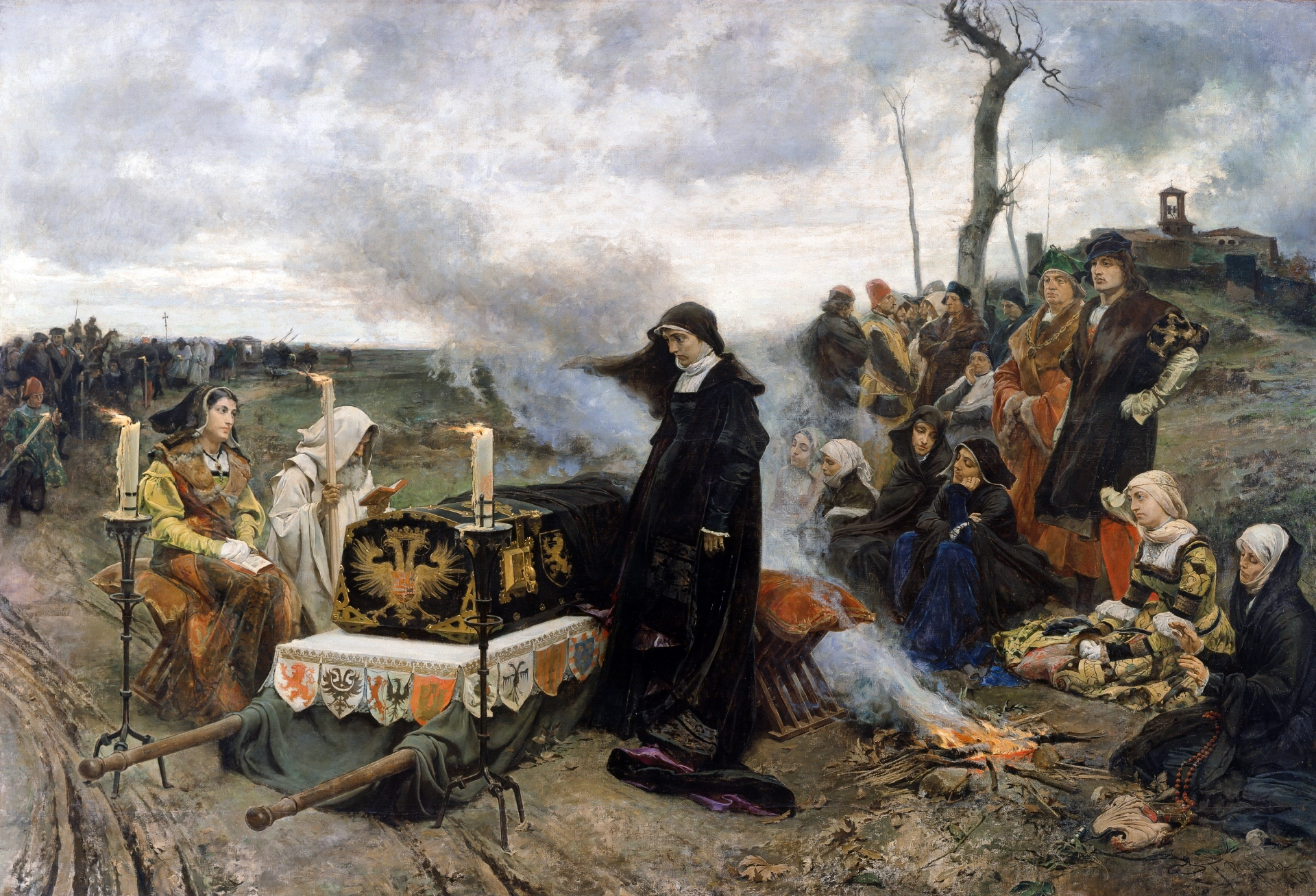 Juana the Mad Holding Vigil over the Coffin of Her Late Husband, Philip the Handsom